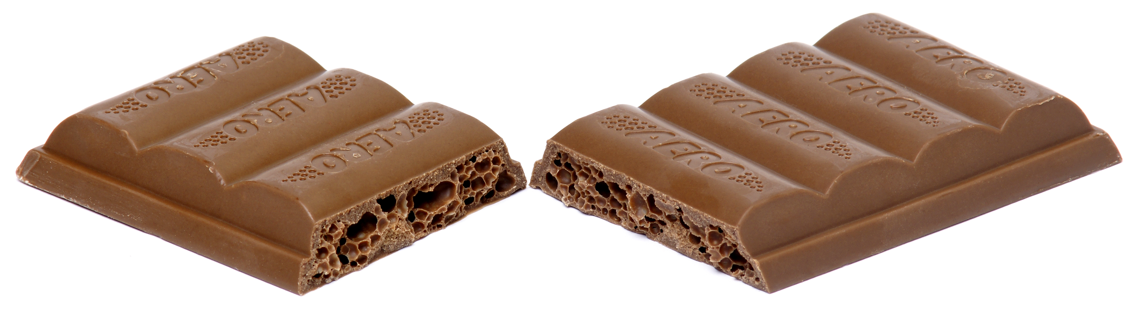 A Nestle Aero that has been split in half.